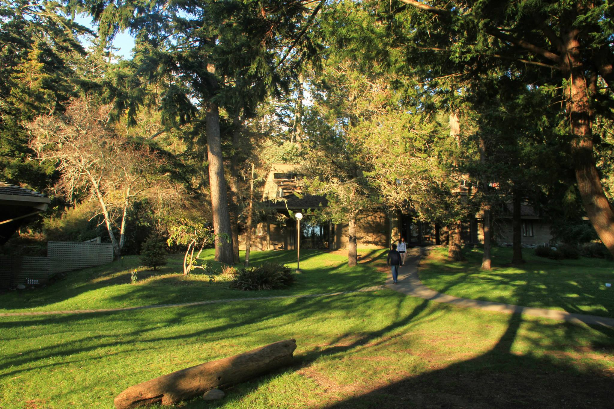 Walkway to East House, one of Pearson College's residential buildings.